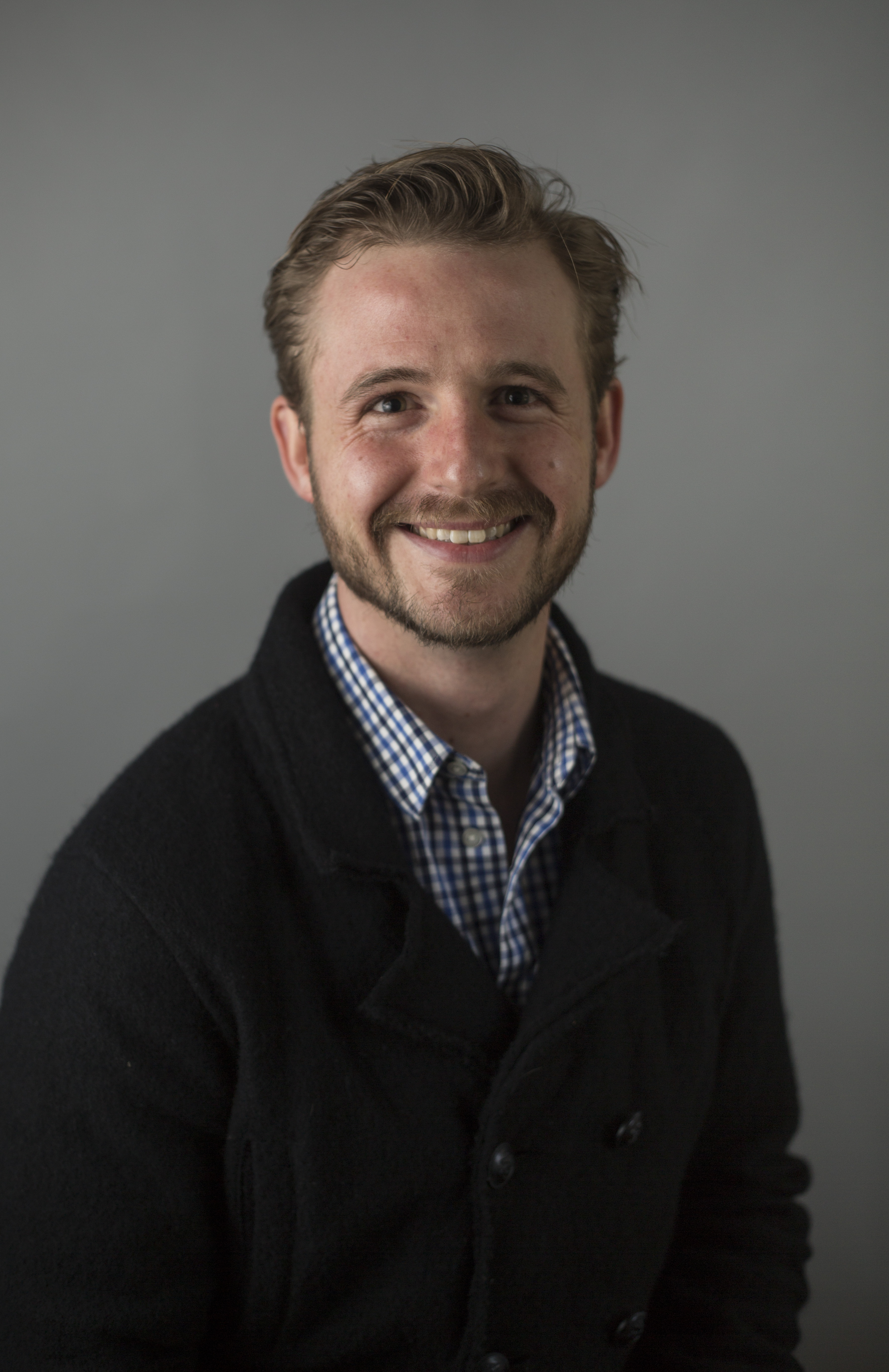 Founder of Play Business, the first and biggest equity crowdfunding platform in LATAM